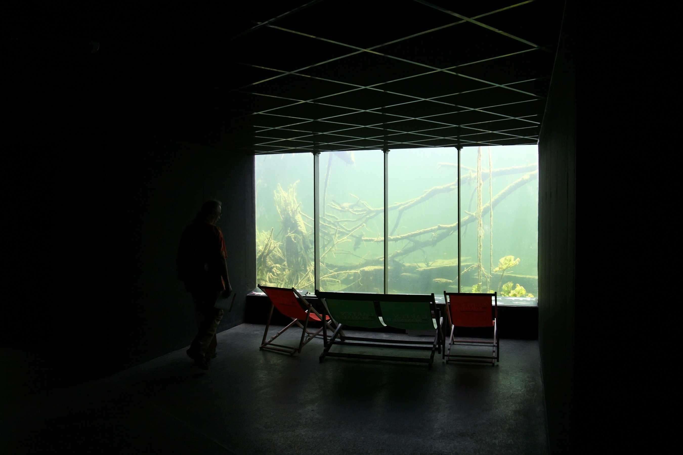 Lake at the information center of Danube-Auen National Park in castle Orth (Orth an der Donau, Austria). This file shows the National Park Donau-Auen in Austria.